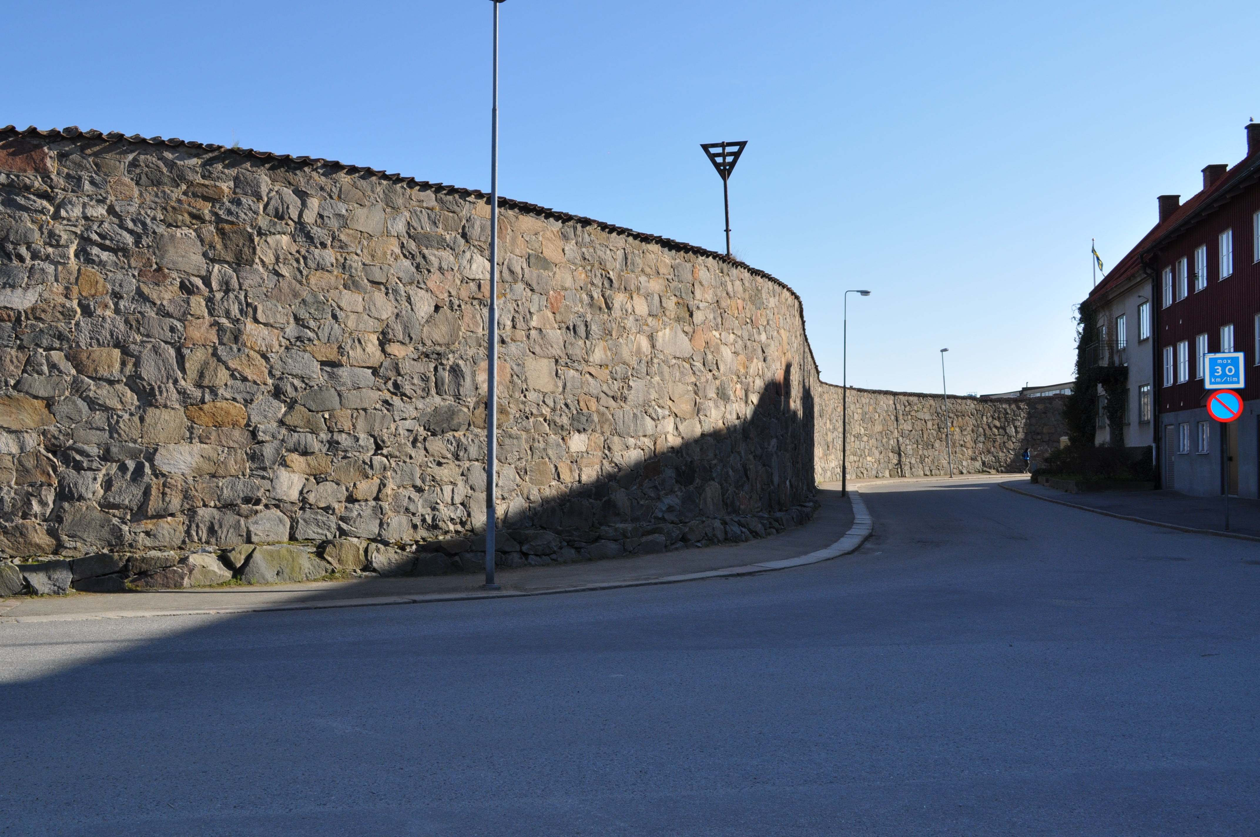 Stone wall along the Swedish Royal Navy